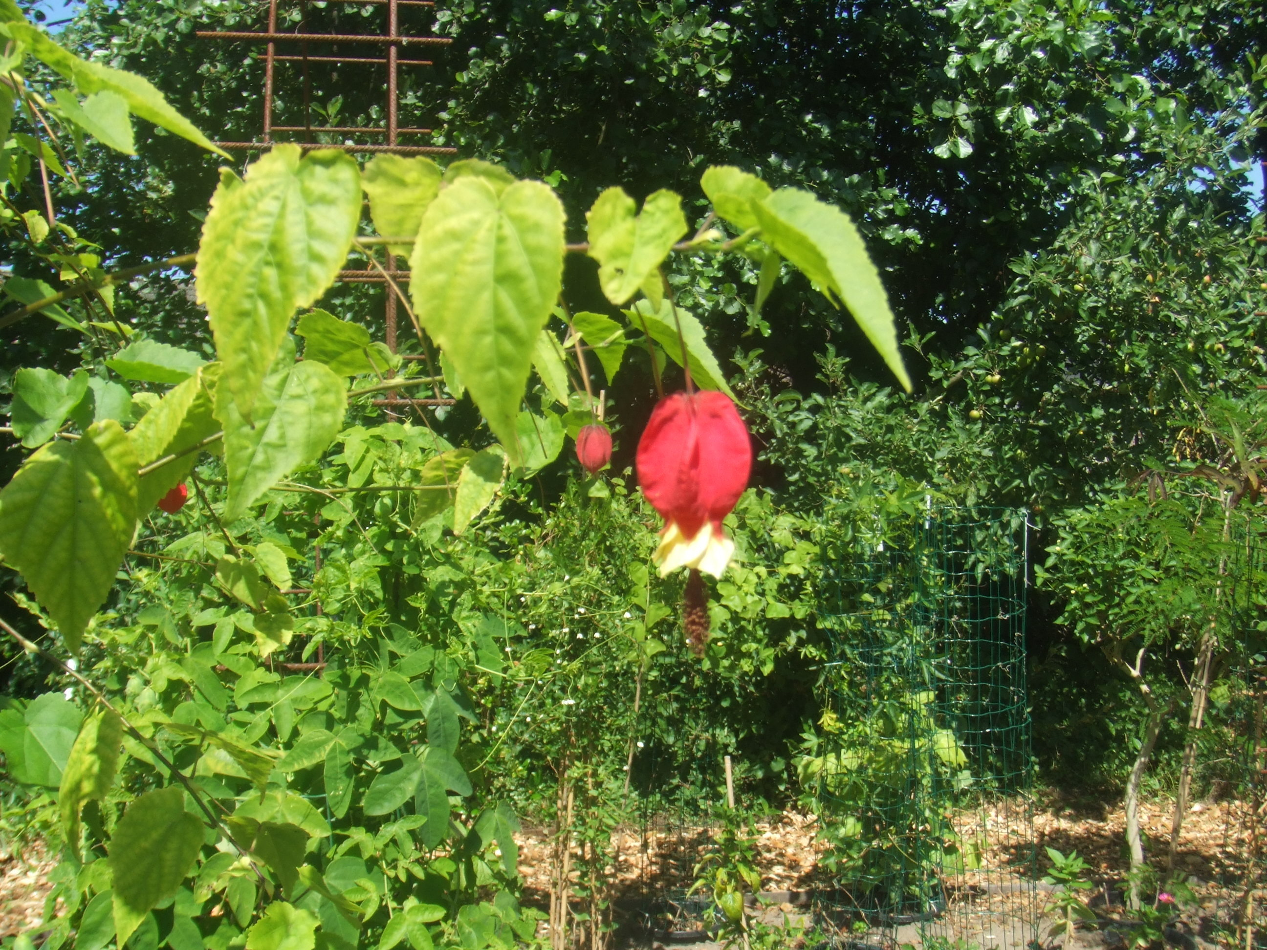 Abutilon megaptamicum, picture taken at he Passiflorahoeve in Harskamp, The Netherlands